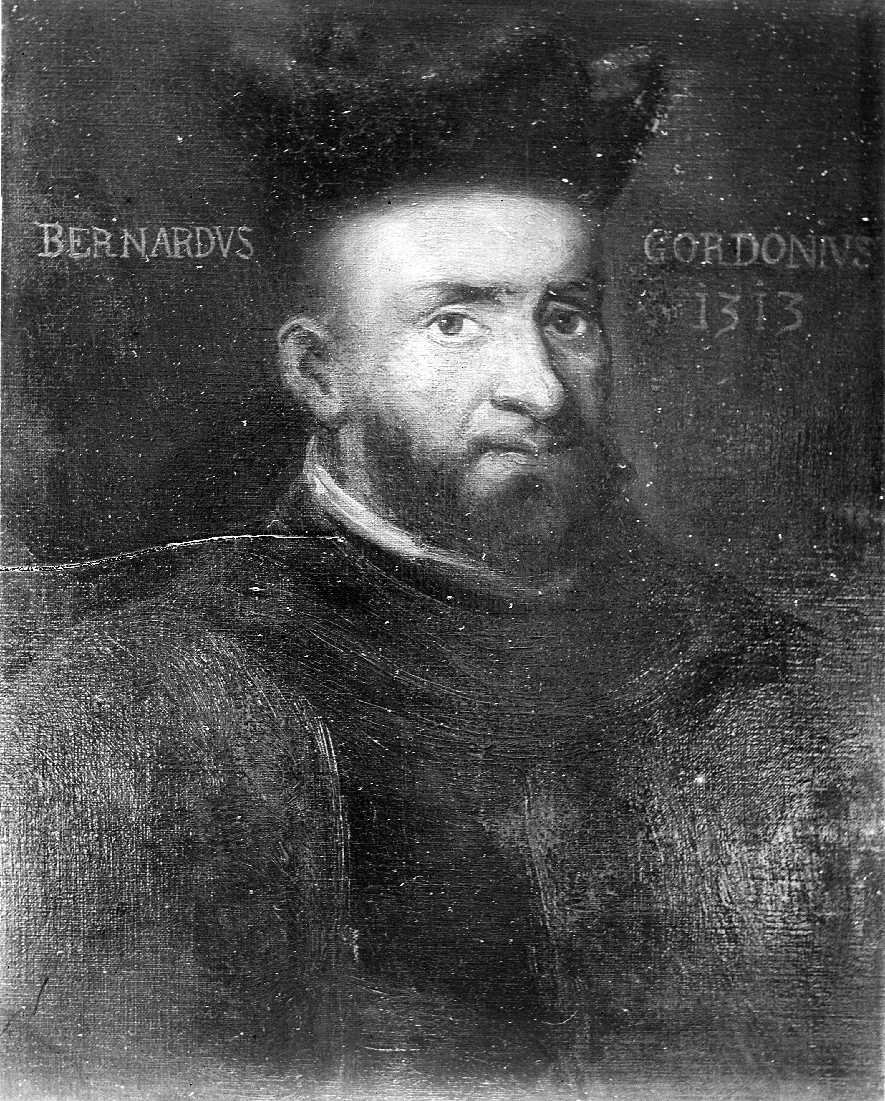 Portrait of Bernard de Gordon, oval, transferred from S.H. file Iconographic Collections Keywords: Bernard de Gordon